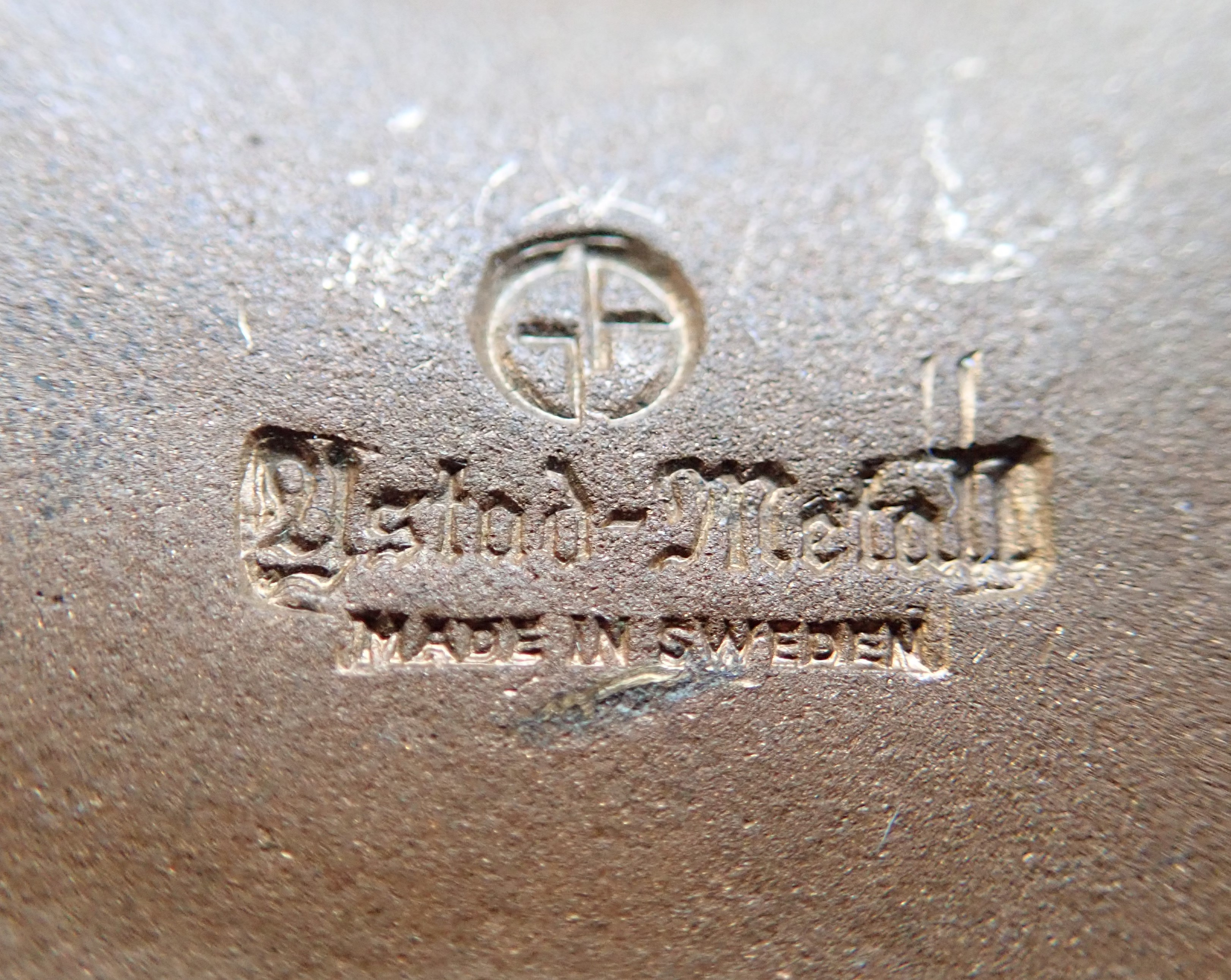 Ystad-Metall